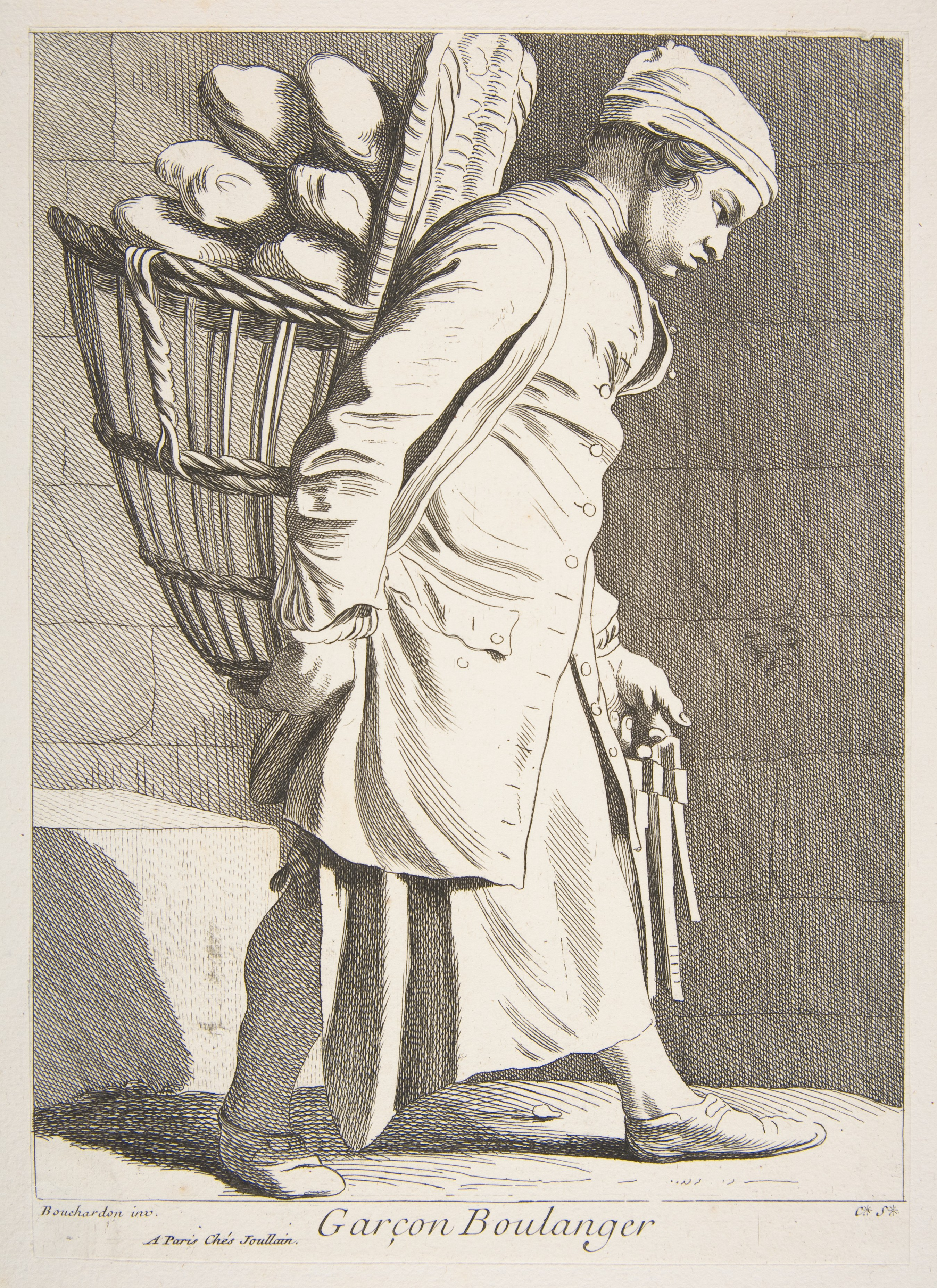 Baker Boy. Baker boy carrying loaves in a basket on his back and walking to the right.